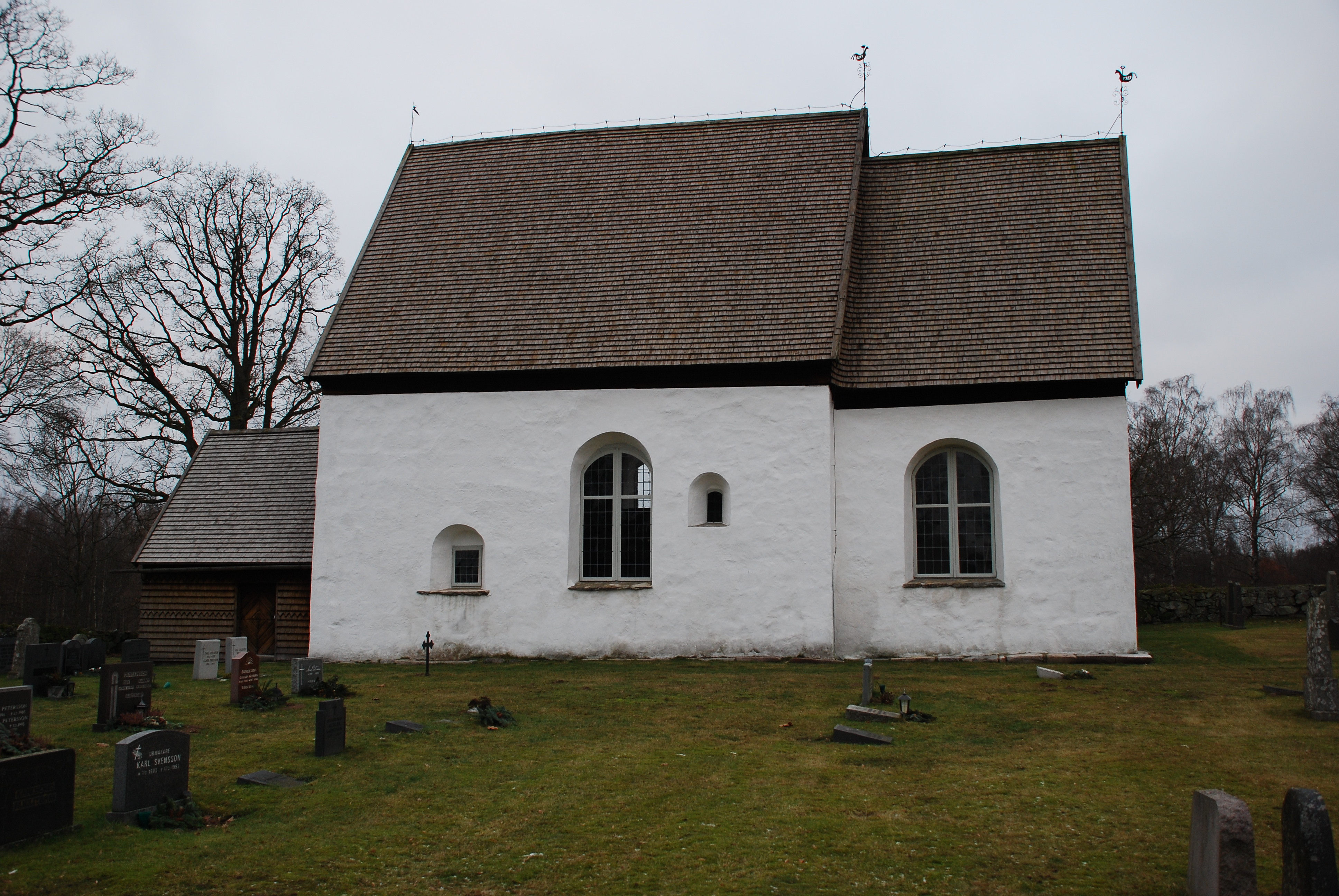 The medieval church of Jät, Småland.